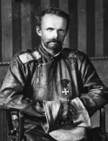 Baron Ungern von Sternberg, military commander of the White Army in Russia, shot by Bolsheviks in 1921